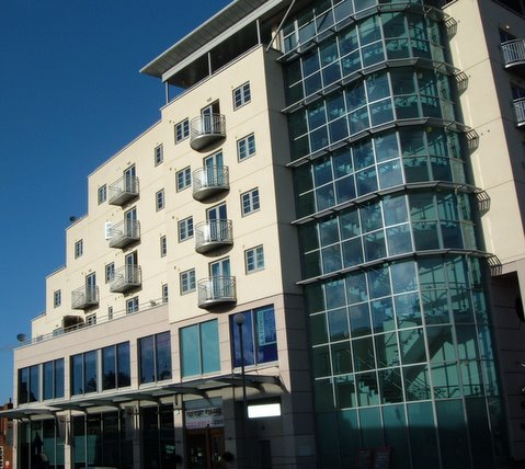 Millennium Flats One of the newest landmarks in Edgware, Middlesex is the 'Millennium Flats' which started to go on sale in the year 2000. They are very pricy even by Edgware standards, but you are bang in the centre of town which saves you the hassle of having to find a parking space!